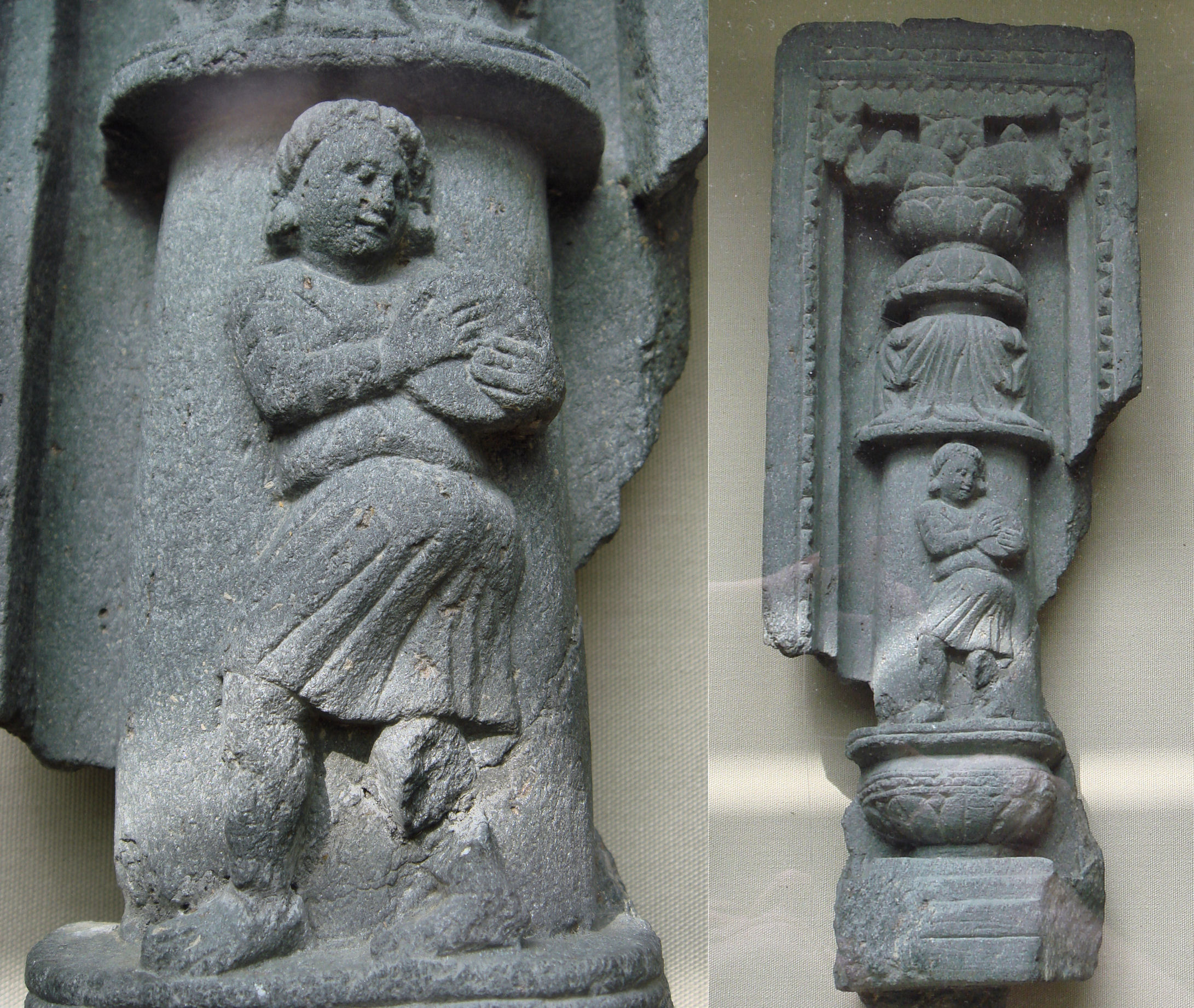 Musician with exomis dress.